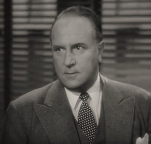 Loring Smith in Shadow of the Thin Man - trailer (cropped screenshot)